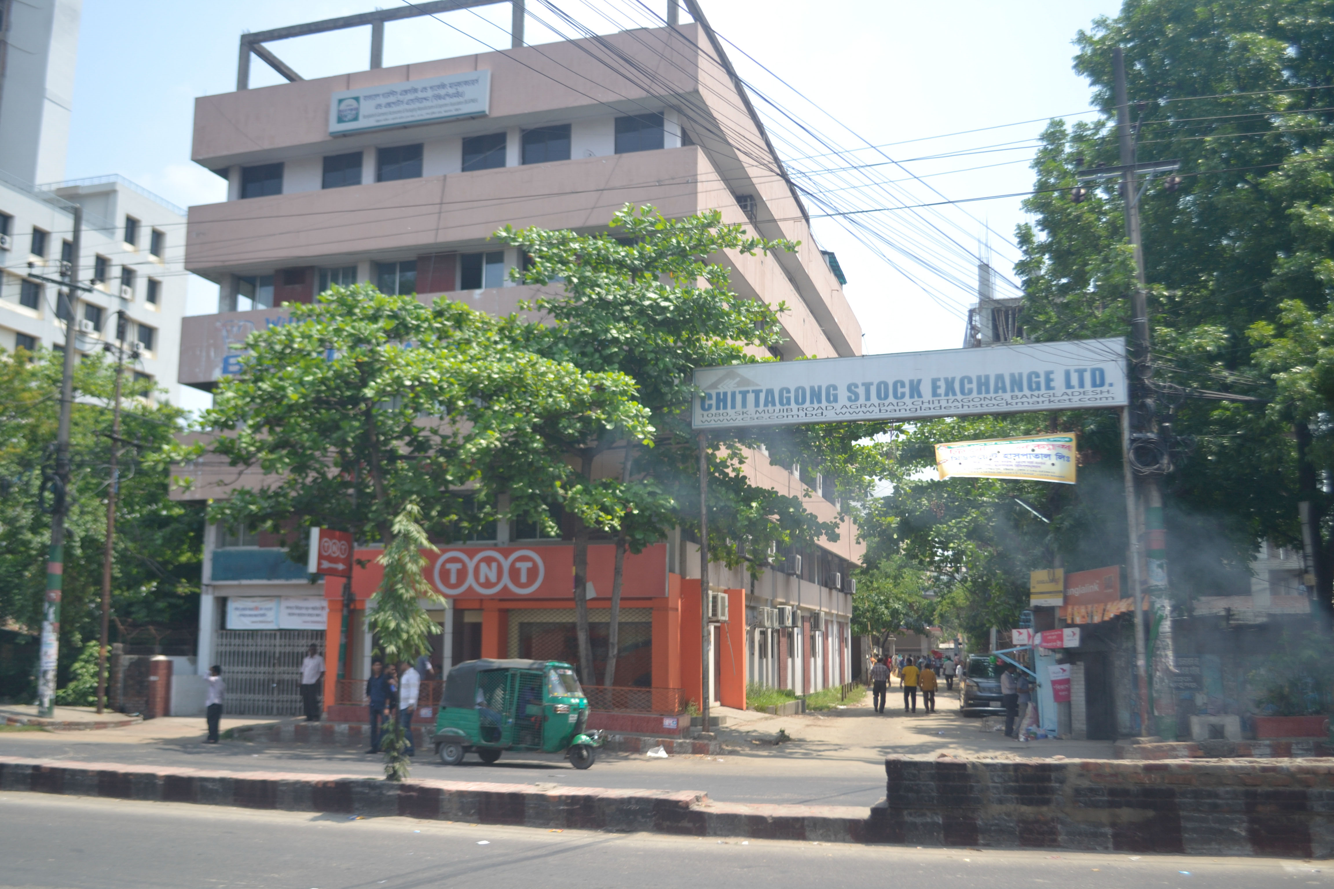 Chittagong Stock Exchange Limited